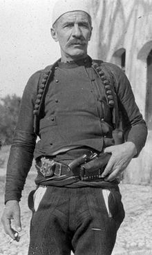 Isa boletini